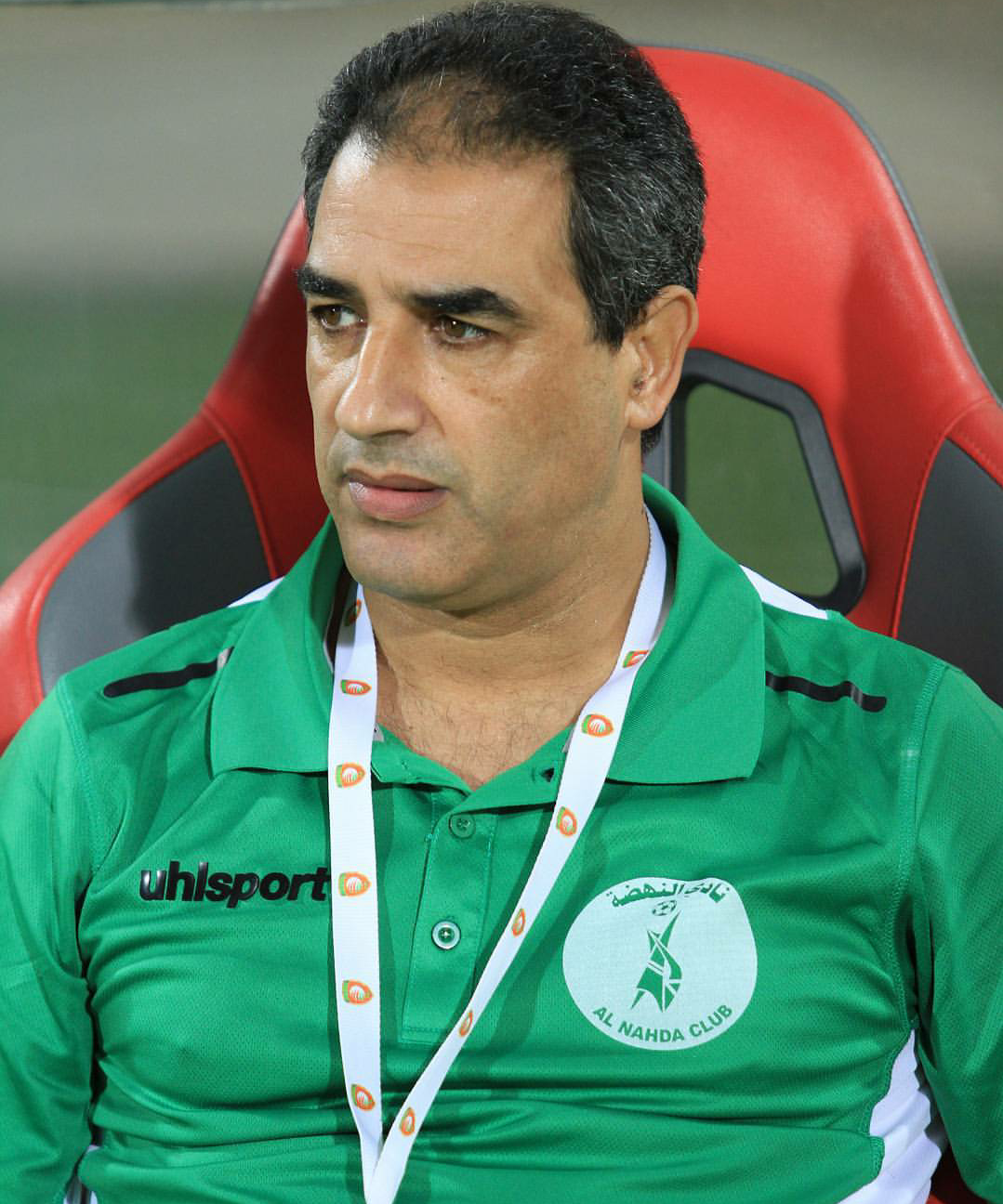 Hicham Jadrane with Al Buraimi Club of Nahda during a match against Fanja Club.; Al Buraimi Stadium, Oman